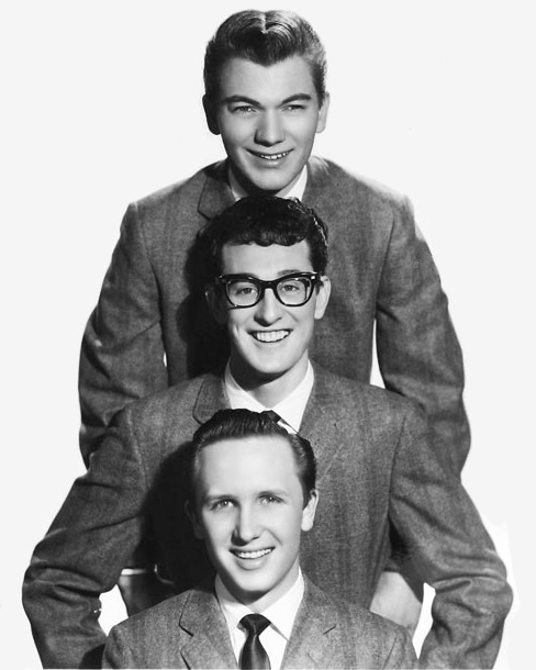 Buddy Holly & The Crickets publicity portrait for Coral Records.